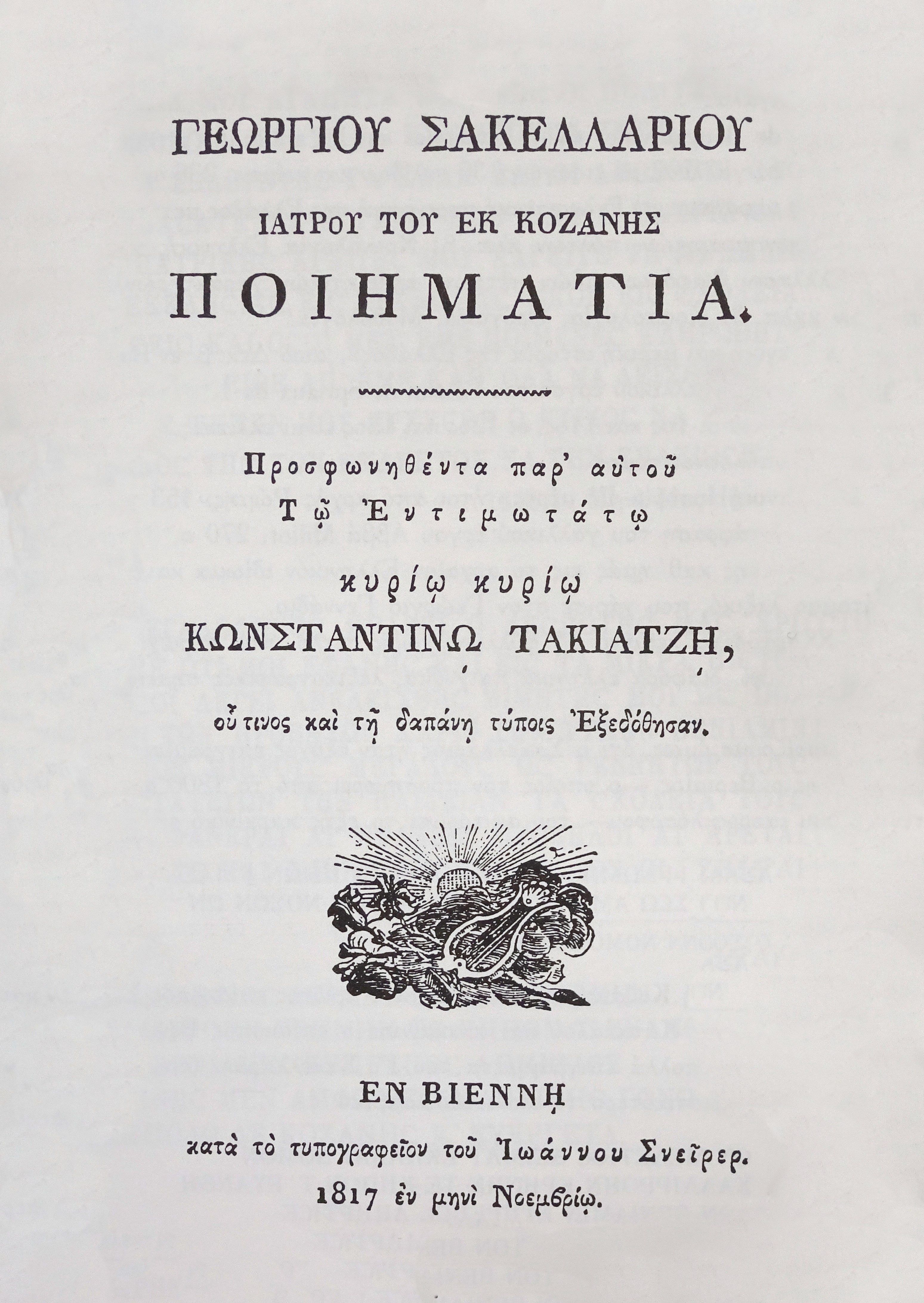 The title page from the G. Sakellarios "Poems" as it has been published in Vienna, 1817.